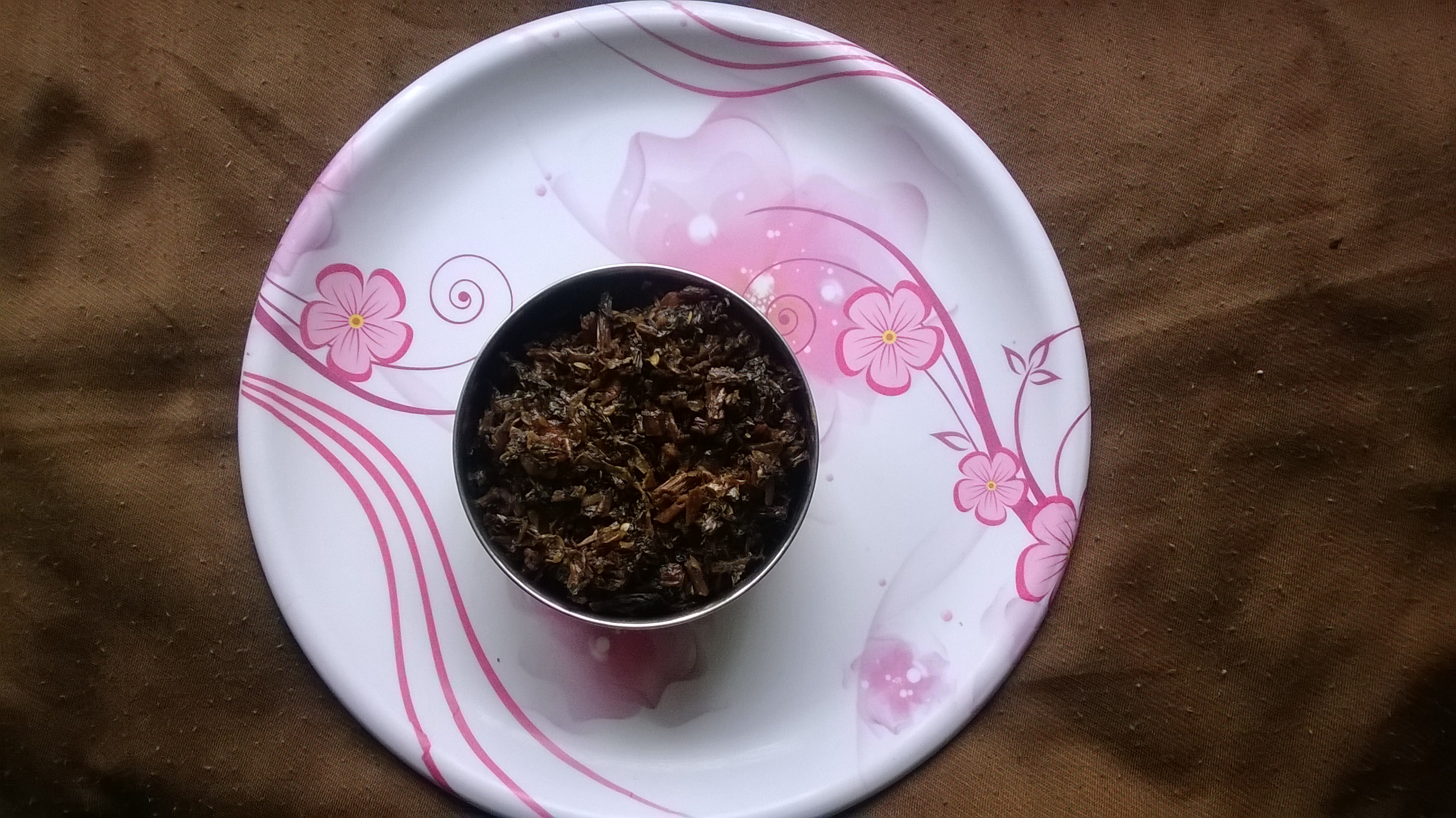 A Nepalese food item.